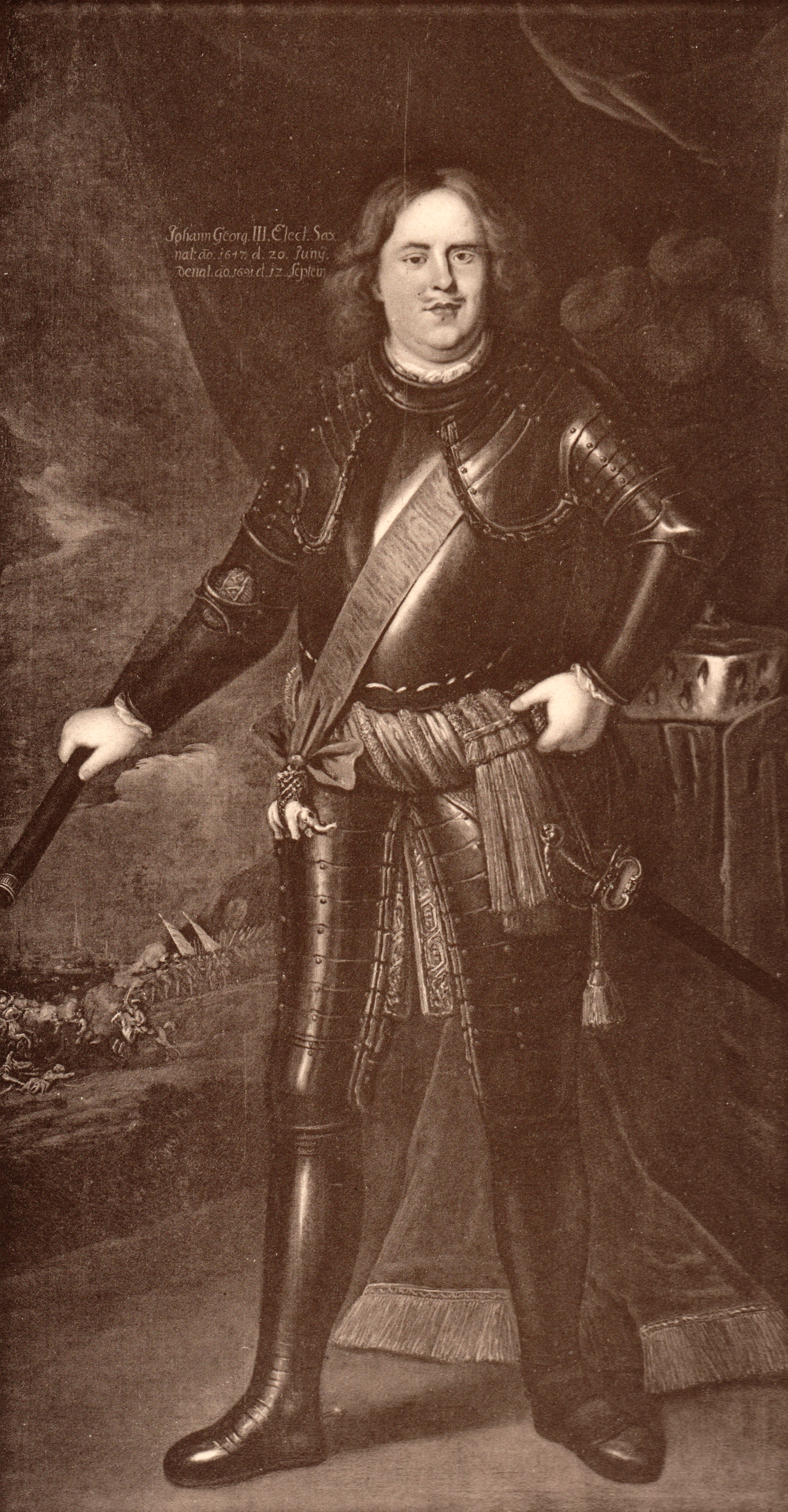 John George III/Johann Georg III., Prince-Elector of Saxony